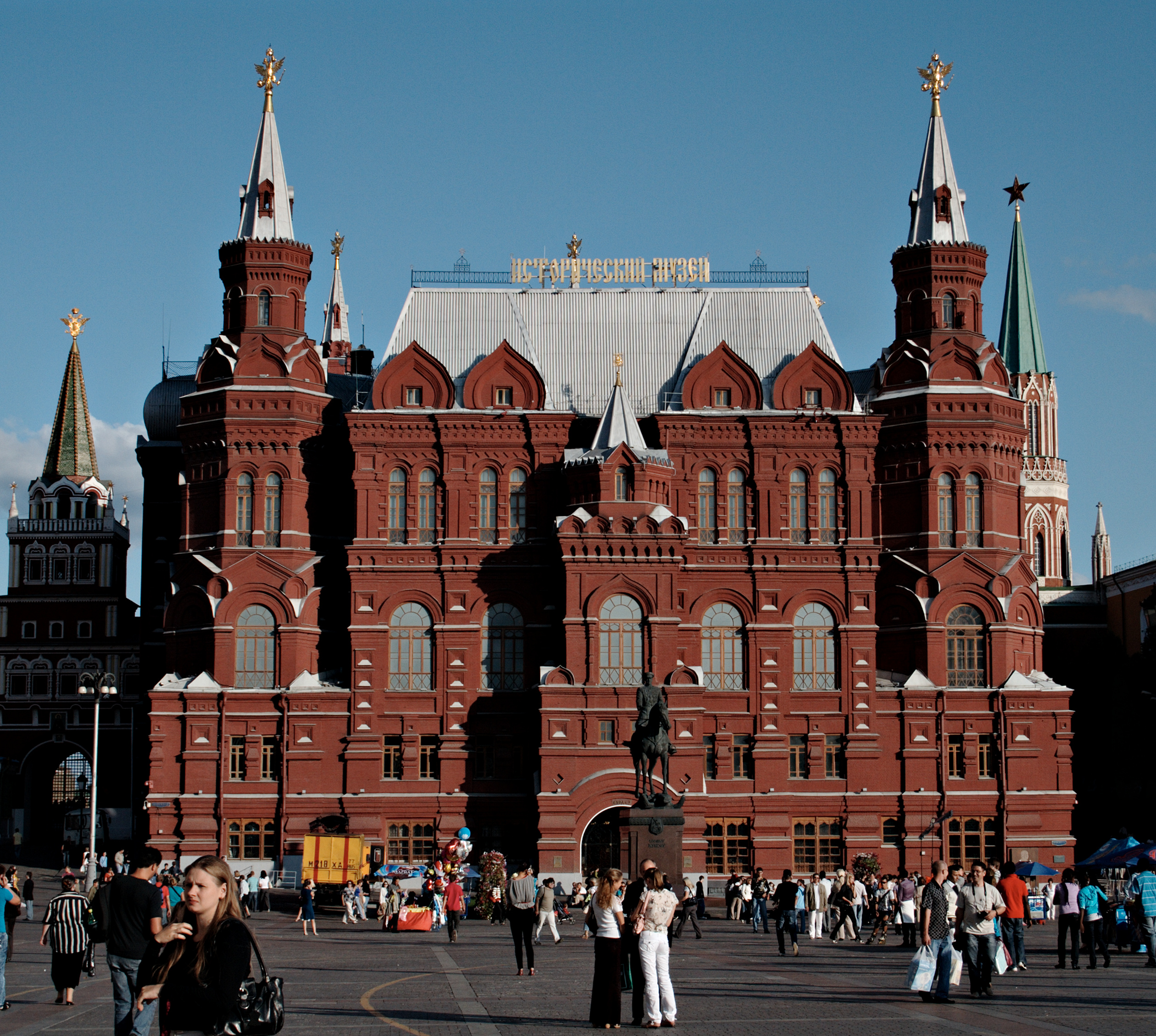 The State Historical Museum, Moscow, Russia, as viewed from the Manege Square, including an equestrian statue of Georgy Zhukov.